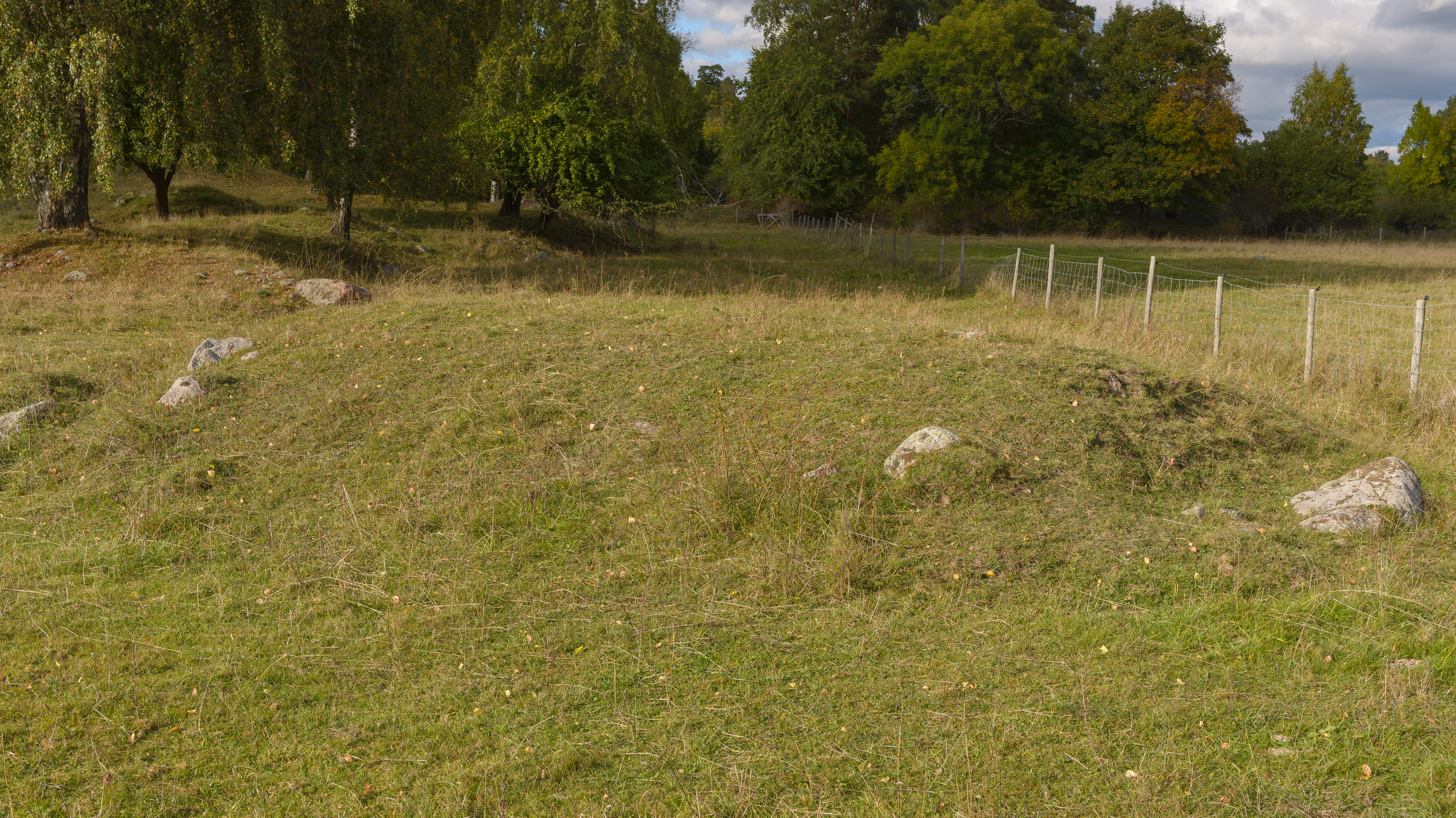 Bural mounds (Kungshögarna, Kings mound) at Hovgården, Adelsö. Part of Birka and Hovgården World Heritage Site.